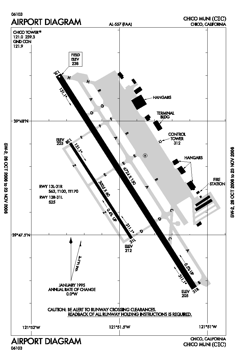 FAA airport diagram for CNO (Chico Municipal Airport) in California, United States.